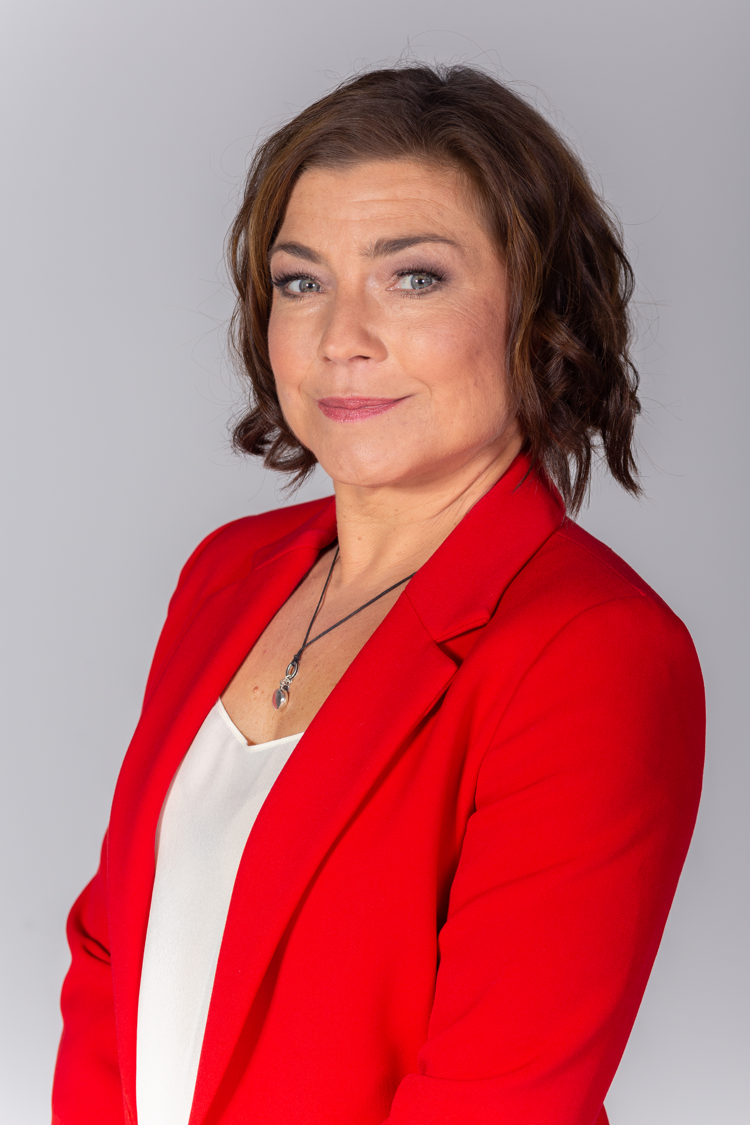 TV, ARD, cast "Rote Rosen"; Claudia Schmutzler